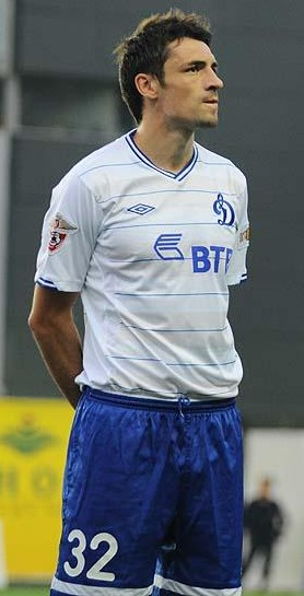 Marko Lomic